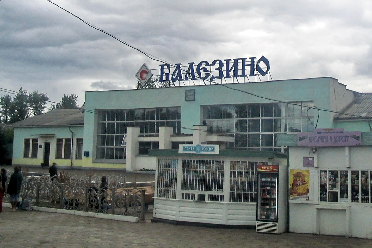 Picture of Balyezino station on the trans-Siberian railway. Taken 7/06 by me, released into public domain.